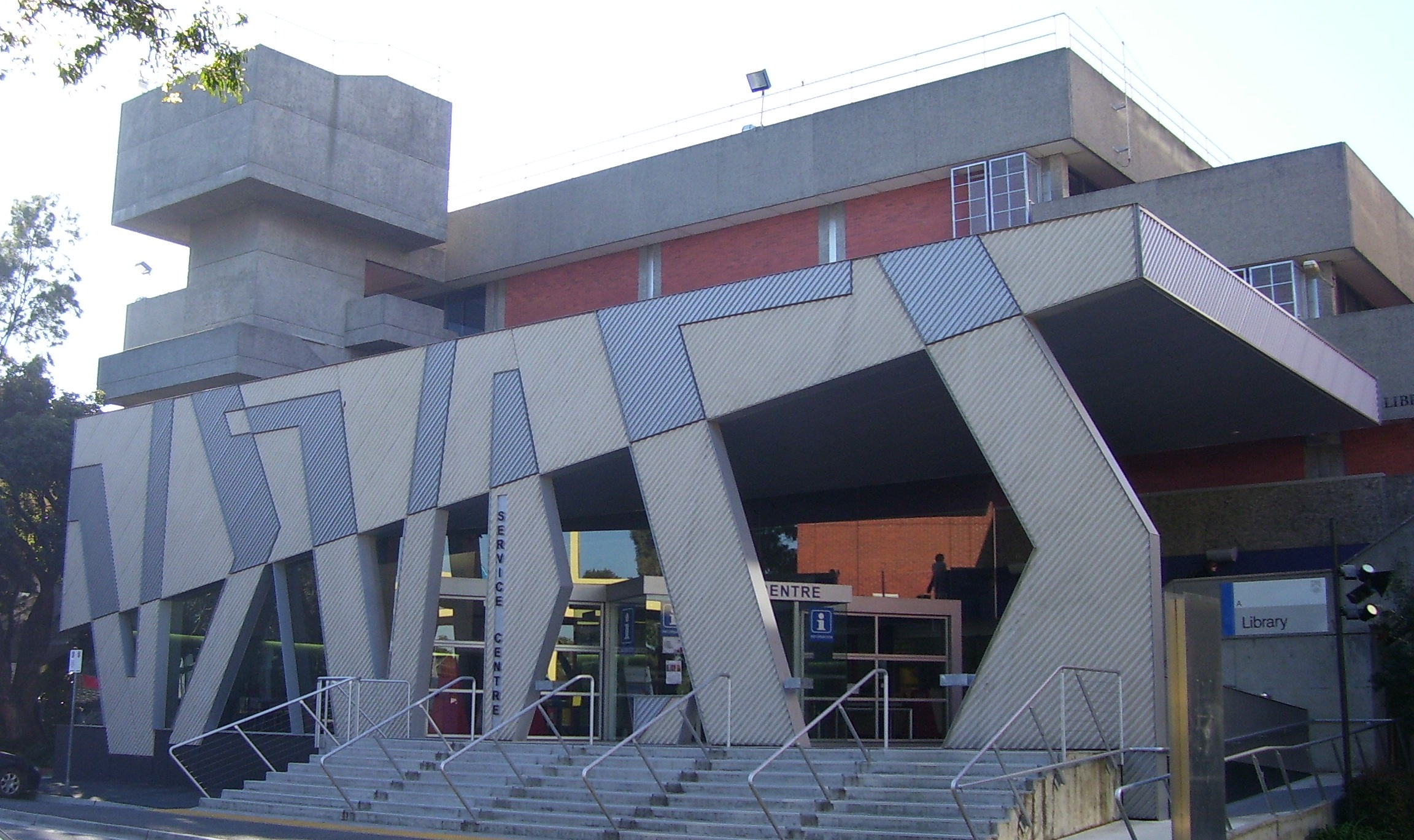 A (fuzzy) photo of the student service centre on Monash University's Caulfield campus